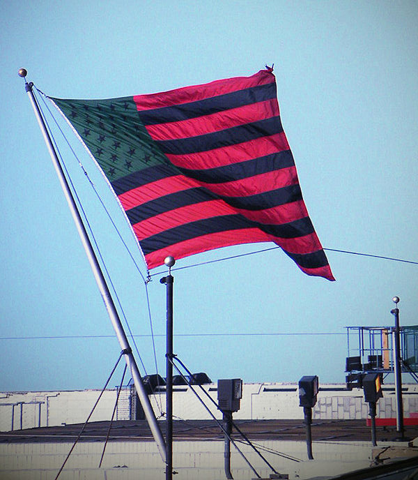 Photograph of the African American Flag by David Hammons as flown at The Studio Museum in Harlem on en:125th Street in Harlem, New York I took the picture June 1, 2007 Use Rationale Example of notable artist's work. Notable example shows some of the artist's major themes. Notable example shows artist's relationship with city and neighborhood in question. Example of notable derivative design for U.S. flag.